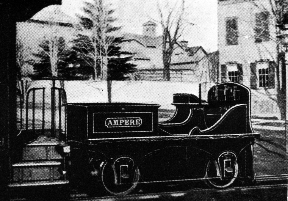 Experemental electric locomotive Ampère, built in USA in 1883 by electric railways pioneer Leo Daft. This loc was feeded through third rail. It was 25 hource powers strong and could pull 10 ton with the maximum speed of 9 mile per hour. Its own weight was 2 ton